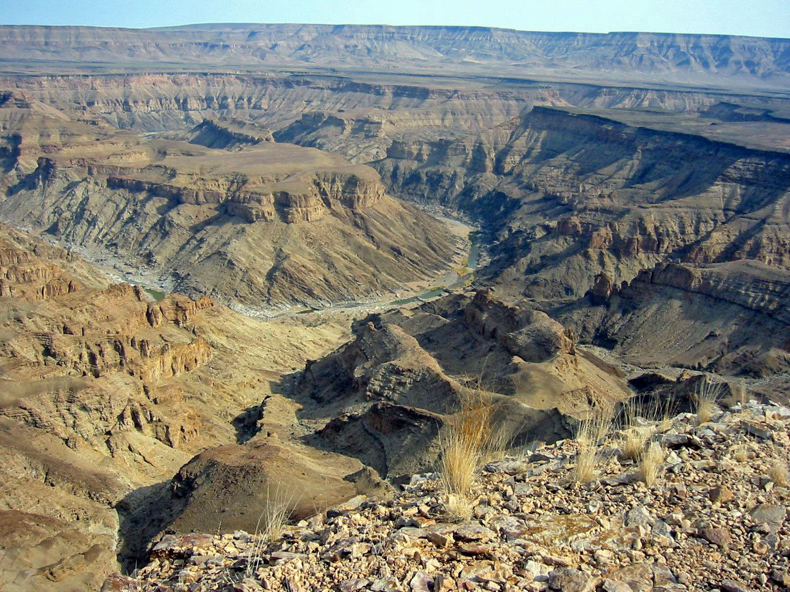 Fish River Canyon, with the Huns mountains 30km to the west, Karas region, southern Namibia